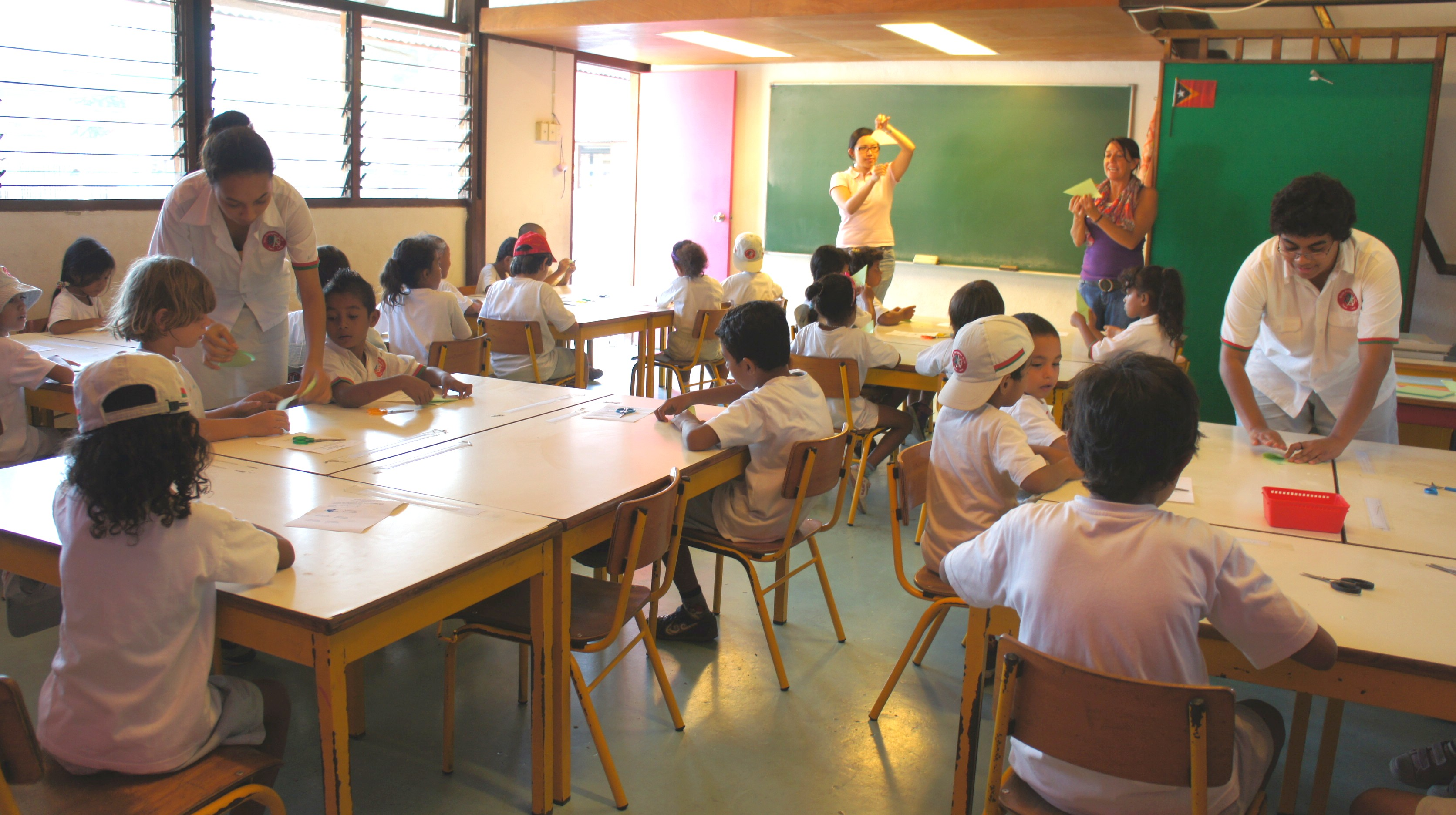 Escola Portuguesa Ruy Cinatti - Cindy explaining how to do origamis On 1 June 2012, several Astronomy related activities were brought to Timor-Leste to the delight of hundreds of children. Children's day activities were part of a major project that took place from 31 May- 8 June in Timor-Leste. Helping the team of ambassadors (Ainil, Carla, Cindy and Jaya) and Pedro Russo were several teachers and high school students that volunteered as monitors for different activities. A big thanks to all of them. Place: Portuguese School of Díli, Timor-Leste. Project: Astronomy in Timor-Leste:Celebrating the Transit of Venus 2012 More